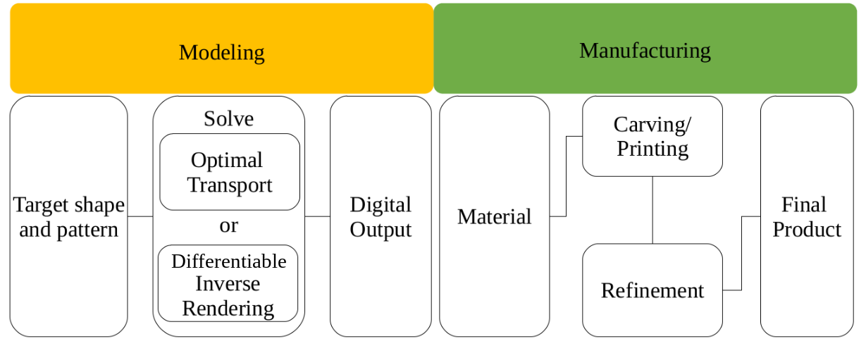 Deisign Pipeline & Manufacturing